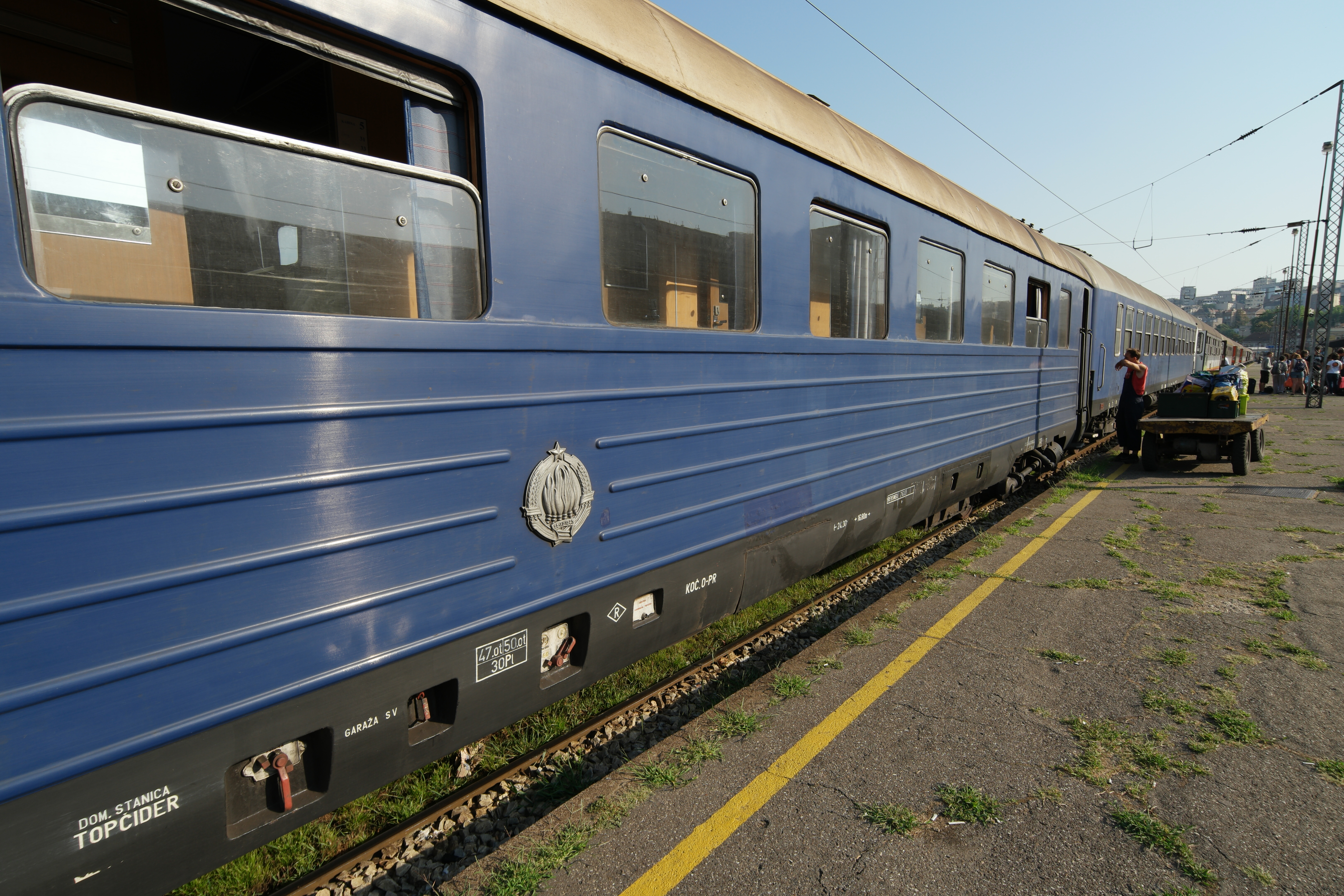 Carriage from Tito's blue train on its Belgrade-Bar destination